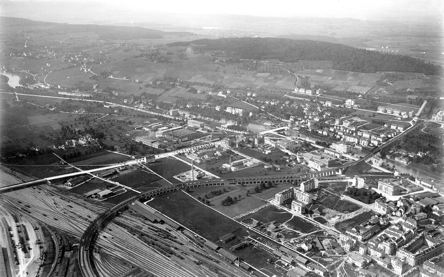 Aerial photograph from a balloon over Zurich, Switzerland, looking WNW.